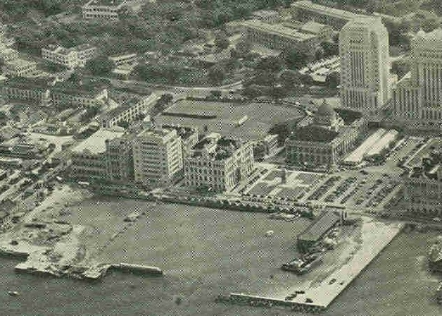 Reclamation of Central, Hong Kong, in 1953